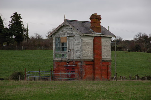 Former railway station at Ballyward (2) See 280569. This is the signal cabin.